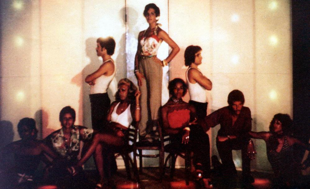 First Wild Side Story cast at rehearsal, l-r: Sarita (Tony) Del Valle, Betty Torres, Lars Jacob, Jennifer (Benny) Garcia, Rena Del Rio (Rene Zequeira), Chiena Chinette (Oscar Perez Echarte), Tom Flavio, George Garmendia & Jessica Kilo (Ramon Lemus), as released by image creator Lars Jacob ProdPlace: Ambassadors III, 401 22nd Street, Miami Beach, Florida